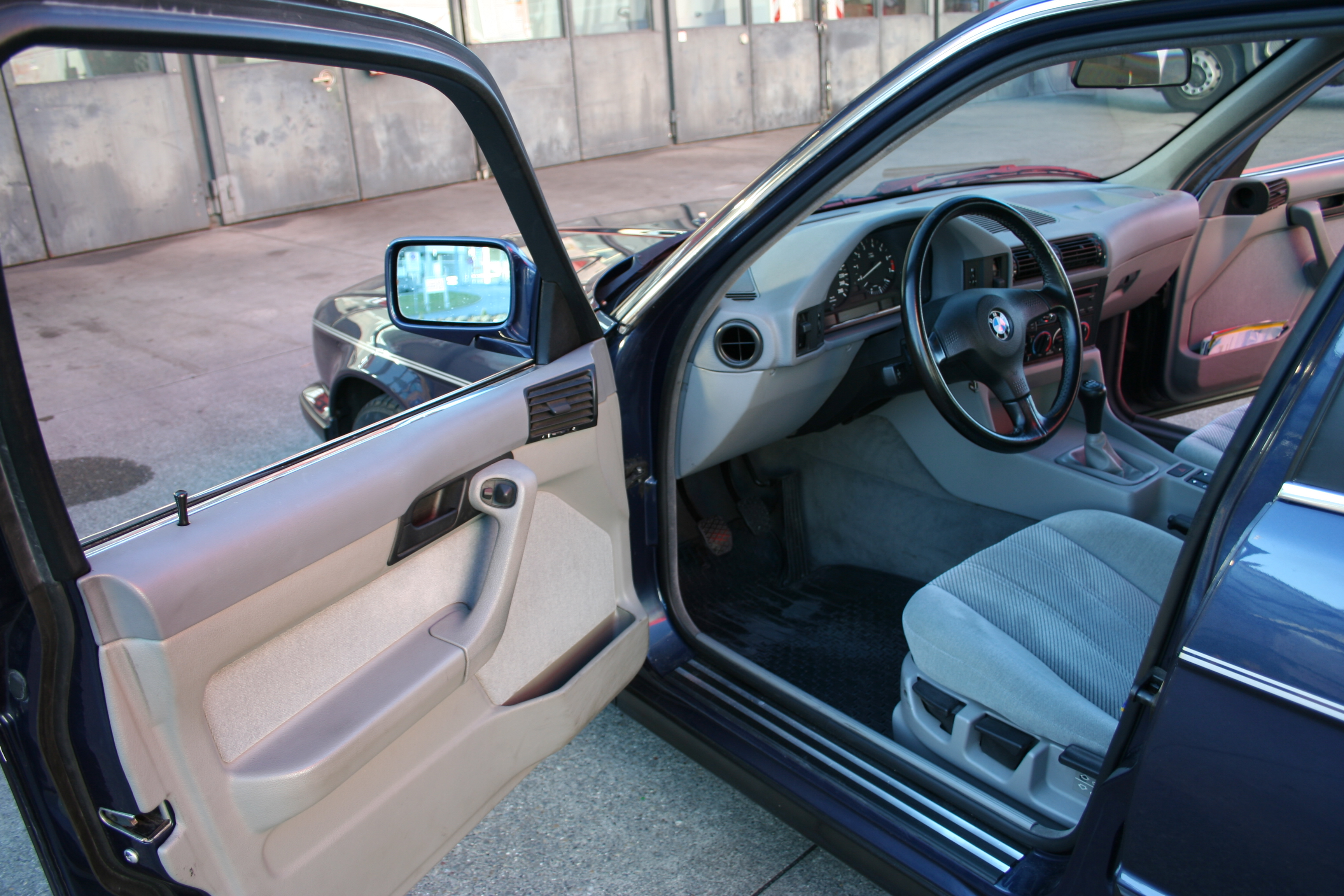 BMW E34, 525i Touring 1993